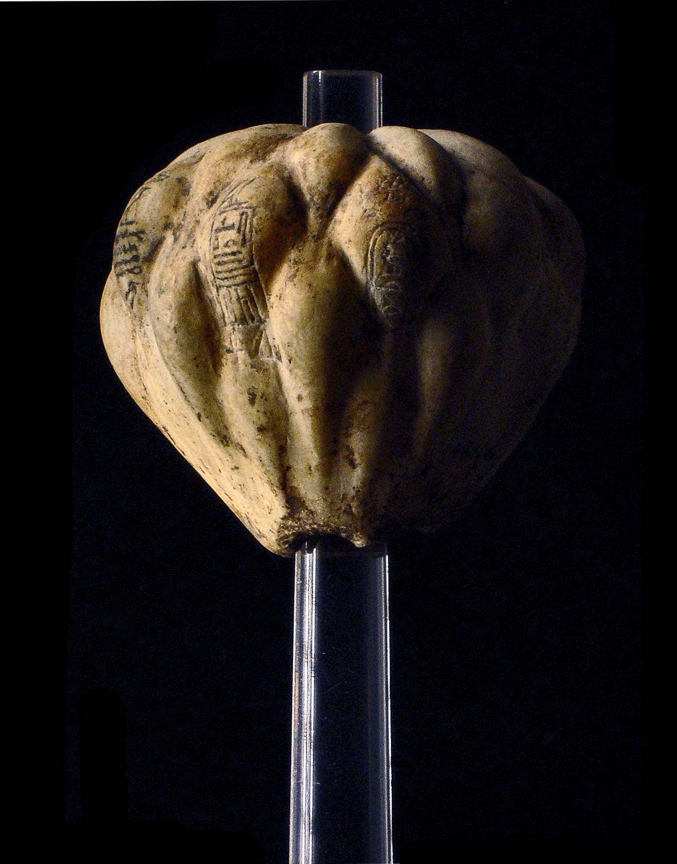 A Piriform mace head, inscribed with the names and official titles of king Horus Seheteptawy Teti of the Sixth dynasty of Egypt, Saqqara, Imhotep Museum.